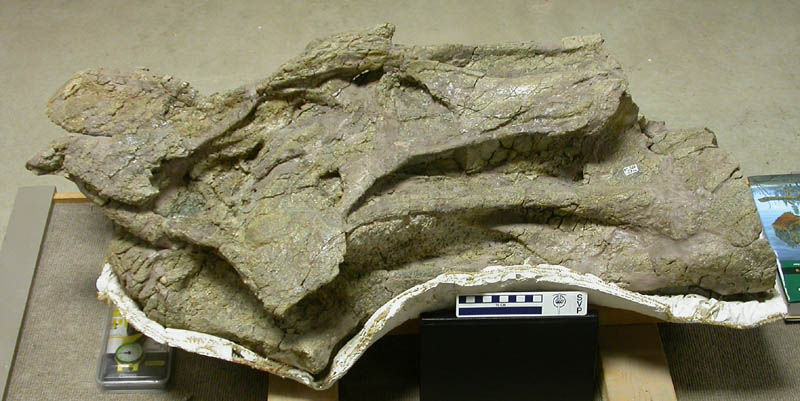 BYU 12866, a mid-cervical of a neosauropod from Dry Mesa Quarry. Catalogued as Brachiosaurus, but no overlap with the holotype.